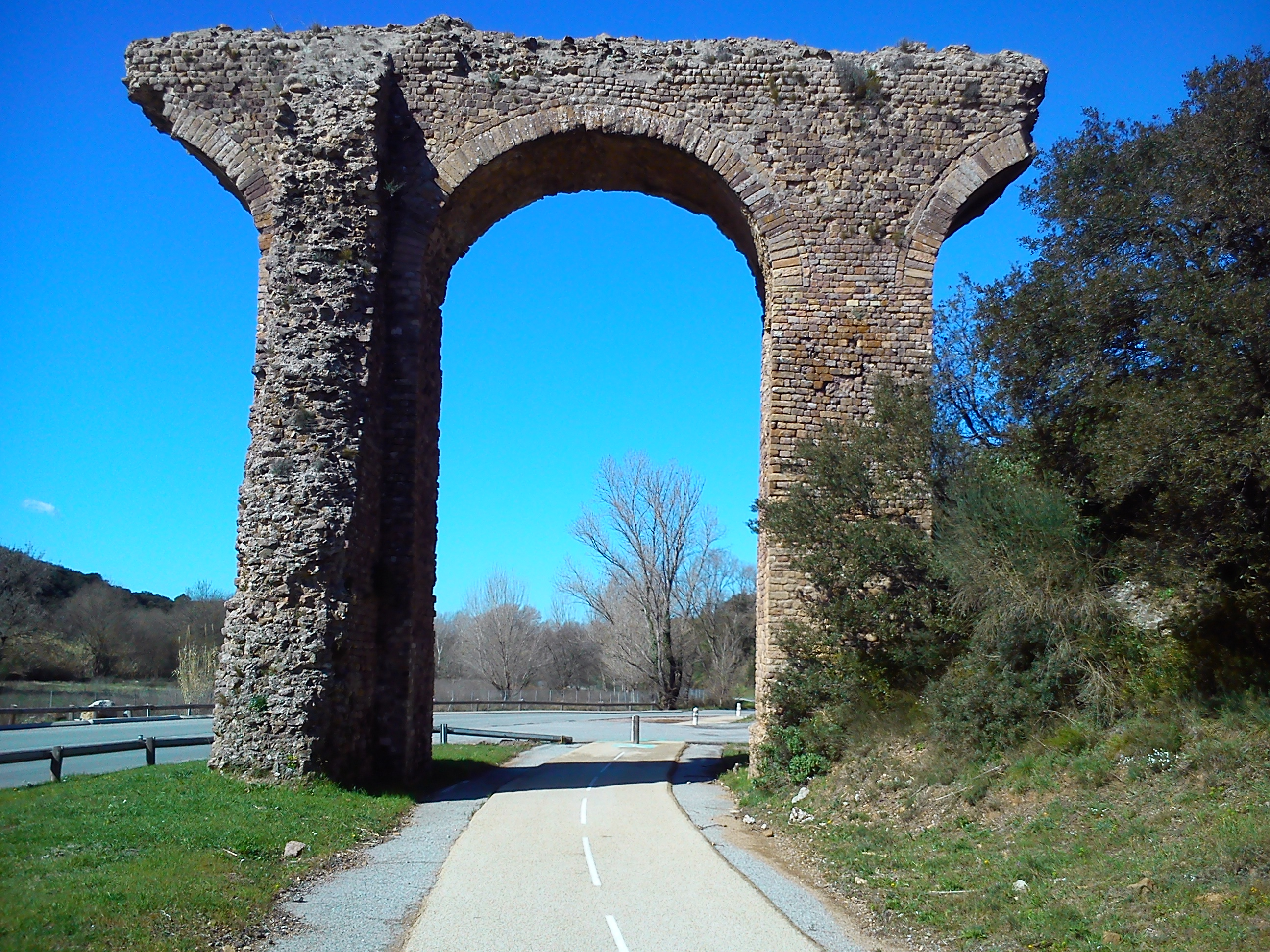 Gargalon Bridge